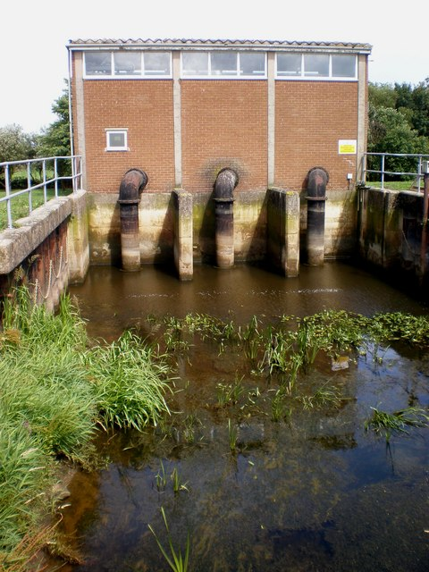 Hempholme Pumping Station, south south east of Hempholme, East Riding of Yorkshire, England.This shows Hempholme water pumping station taken from Hempholme bridge.